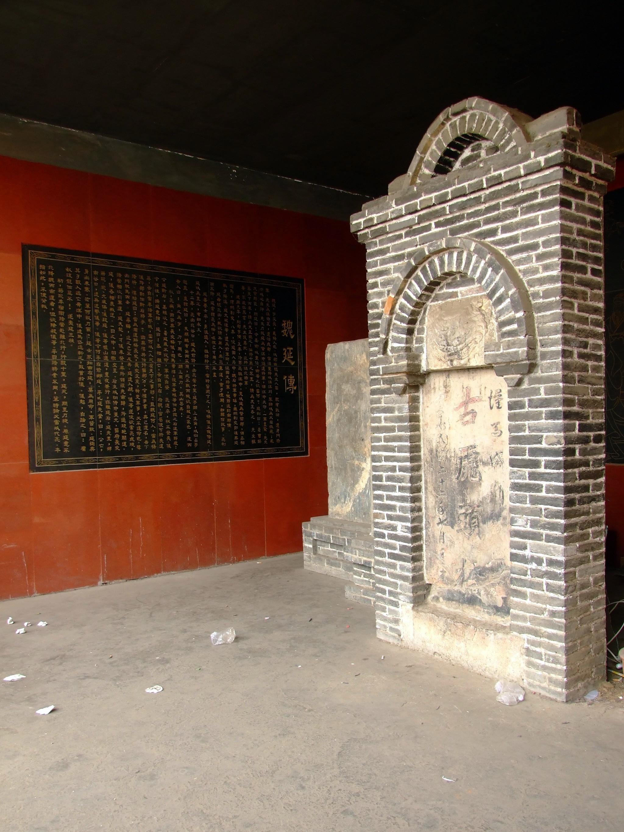 One monument in Hutouqiao relics,Hanzhong,Shannxi. 中文（中国大陆）: 陕西汉中虎头桥遗址，三国时期魏延遭处决处。